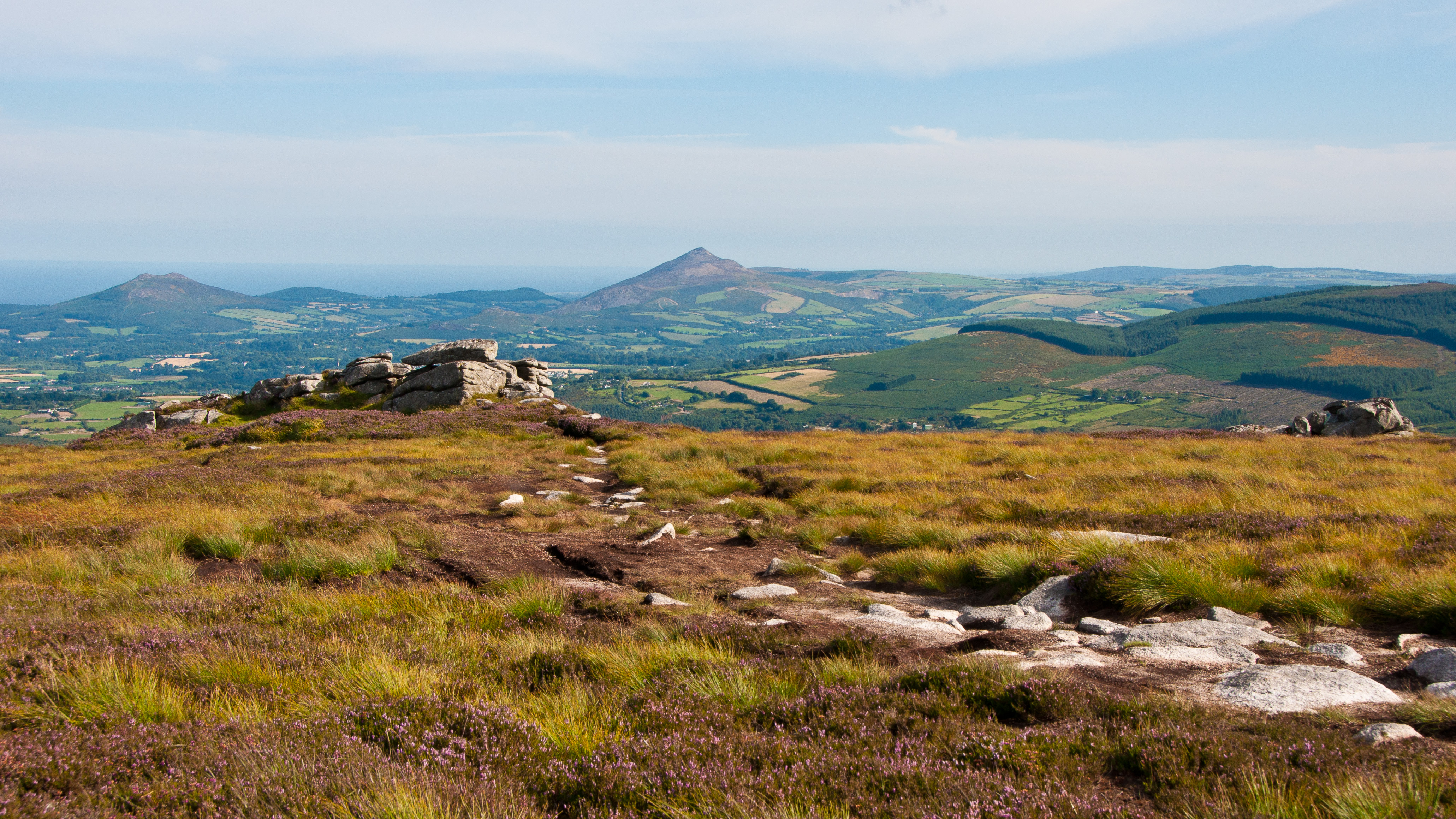 The twin tors (rock piles in foreground, left and right) give Two Rock mountain (foreground) in County Dublin in Ireland its name. The mountains in the background are Little Sugar Loaf mountain (left) and Great Sugar Loaf mountain (right), both in County Wicklow.